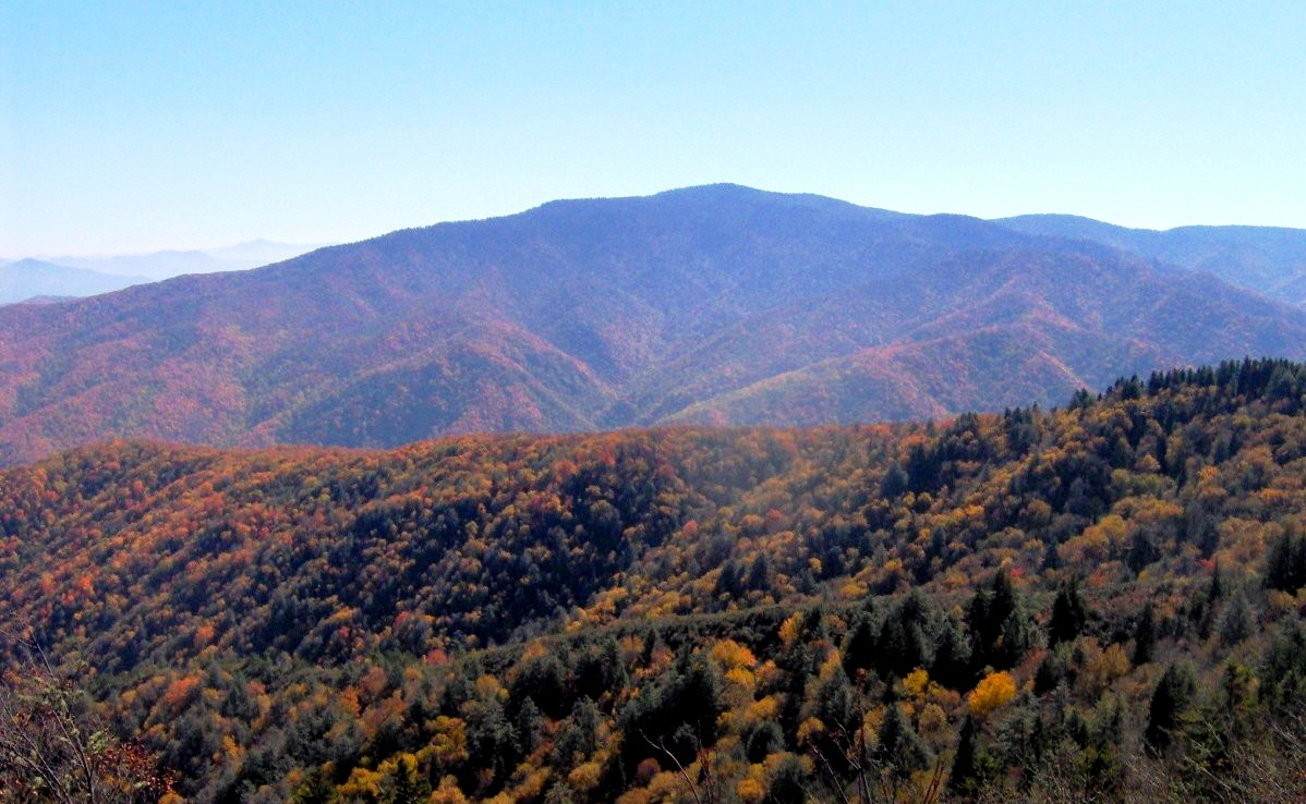 Mount Sterling, looking south from the Mount Cammerer lookout in the Great Smoky Mountains of North Carolina.